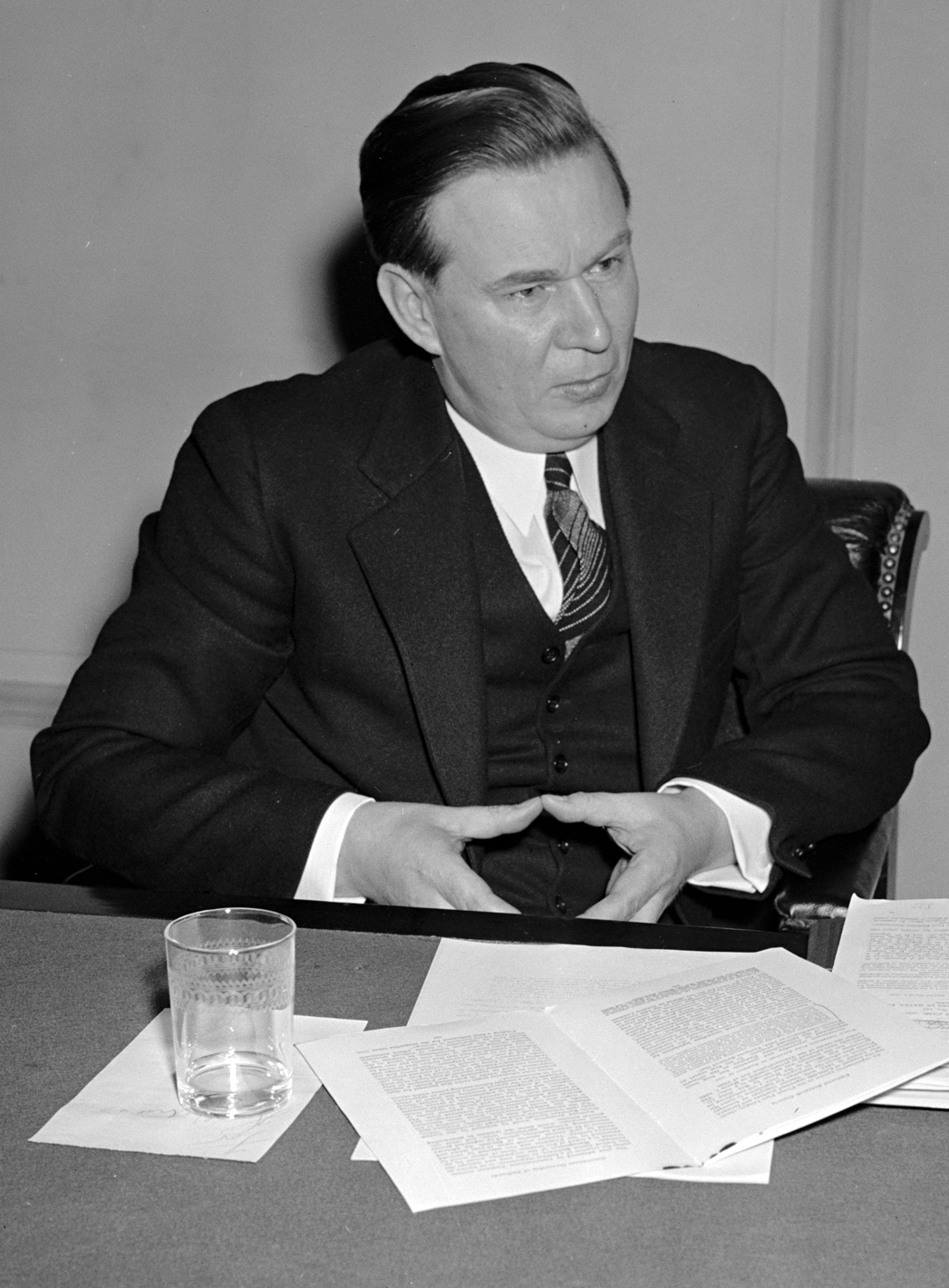 Thomas Ryum Amlie, US Representative from Wisconsin